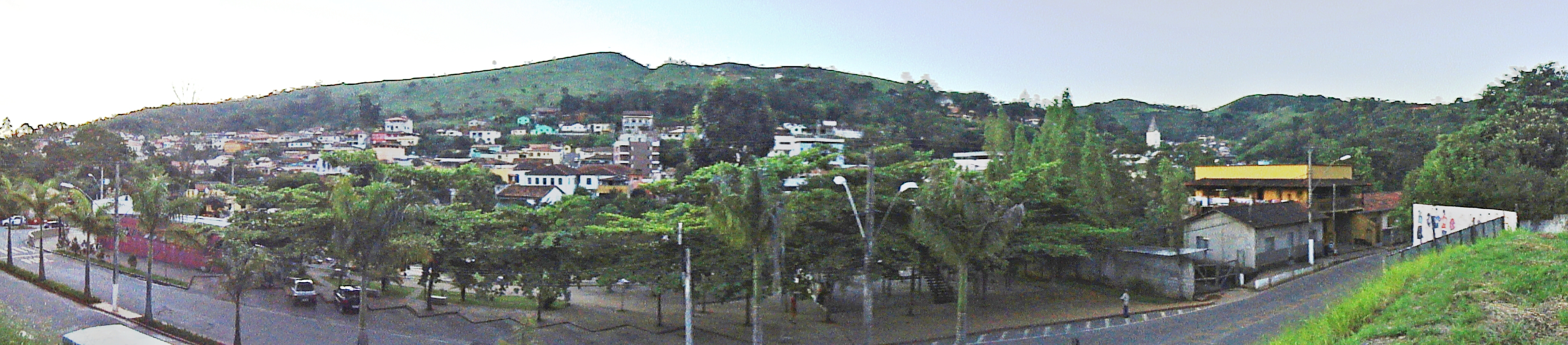 Panoramic of Rio Piracicaba, Minas Gerais, Brazil.